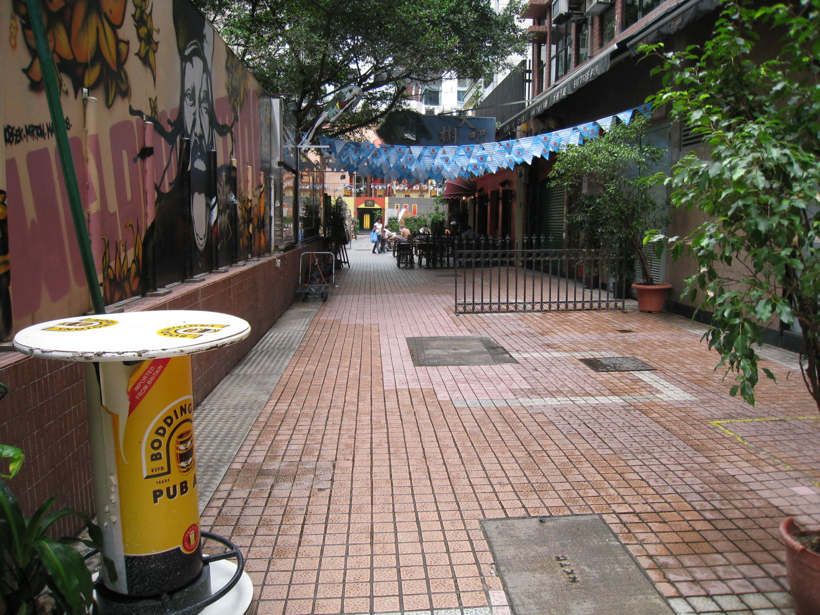 Knutsford Terrace, Tsim Sha Tsui, Hong Kong 中文（香港）: 諾士佛台，尖沙咀，香港 粵語: 諾士佛台，尖沙咀，香港